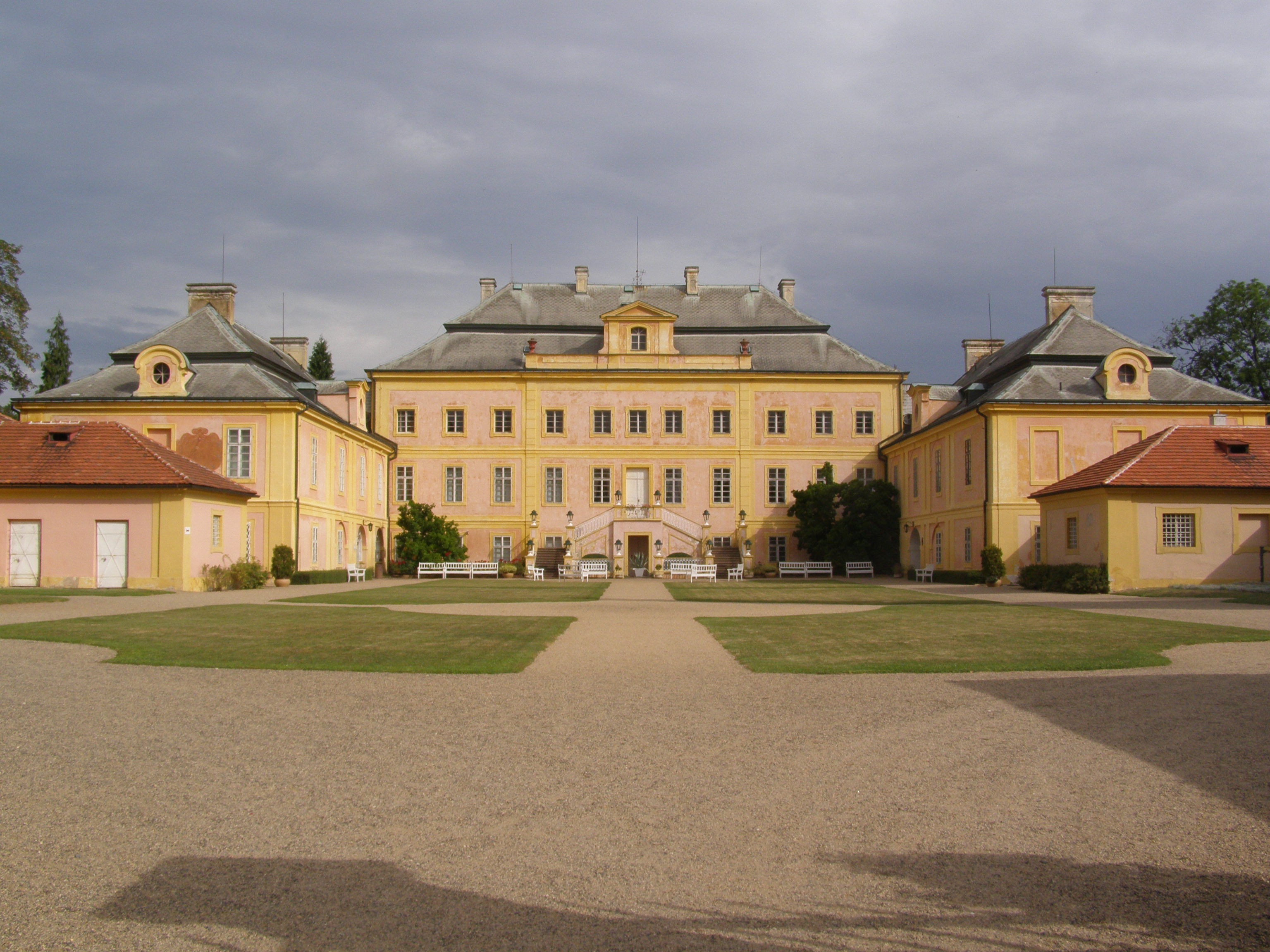 Krásný dvůr castle